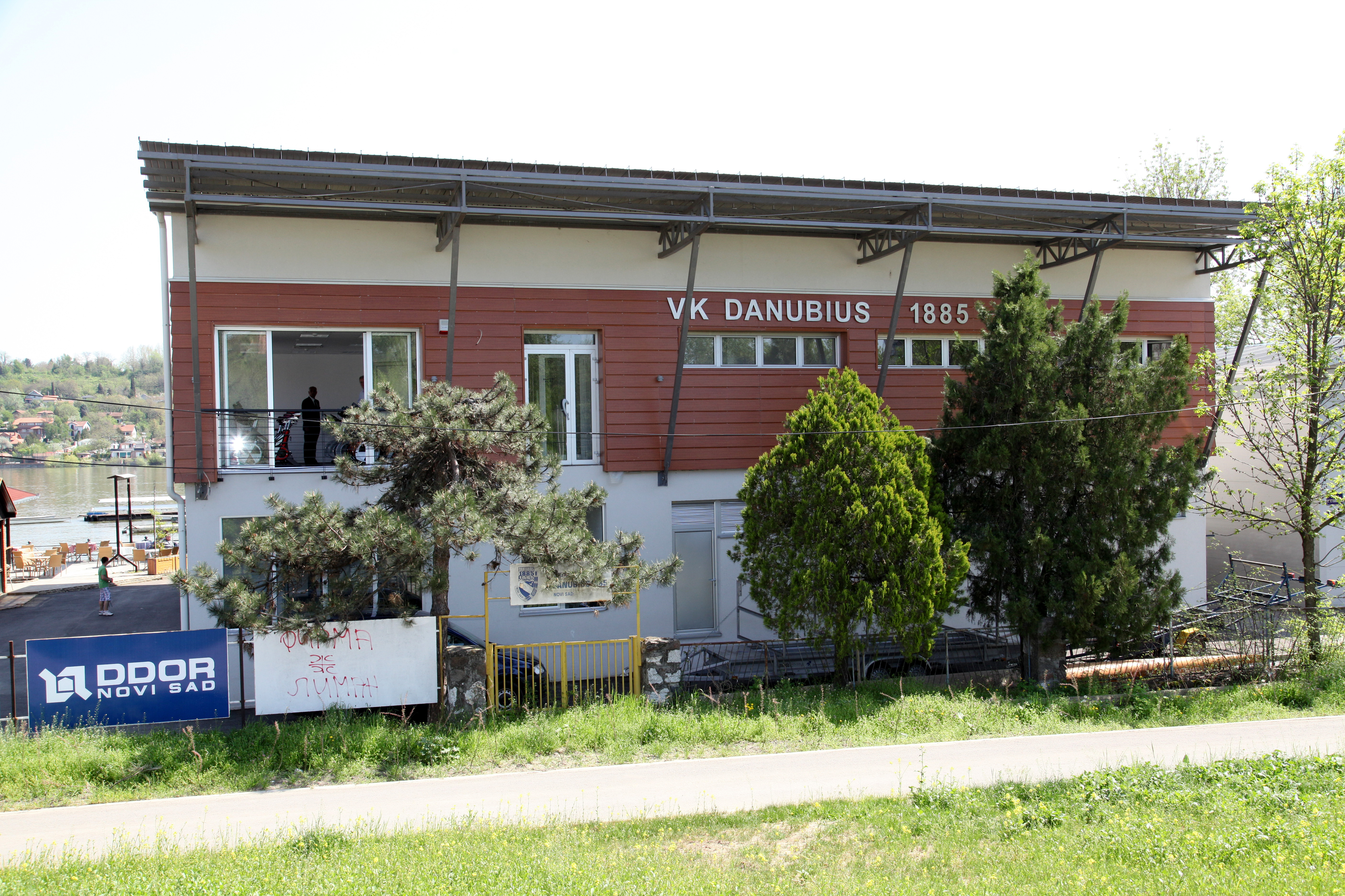 Danubius 1885 Rowing Club, Novi Sad, SerbiaСрпски (ћирилица): Веслачки клуб Данубијус 1885, Нови Сад, Србија